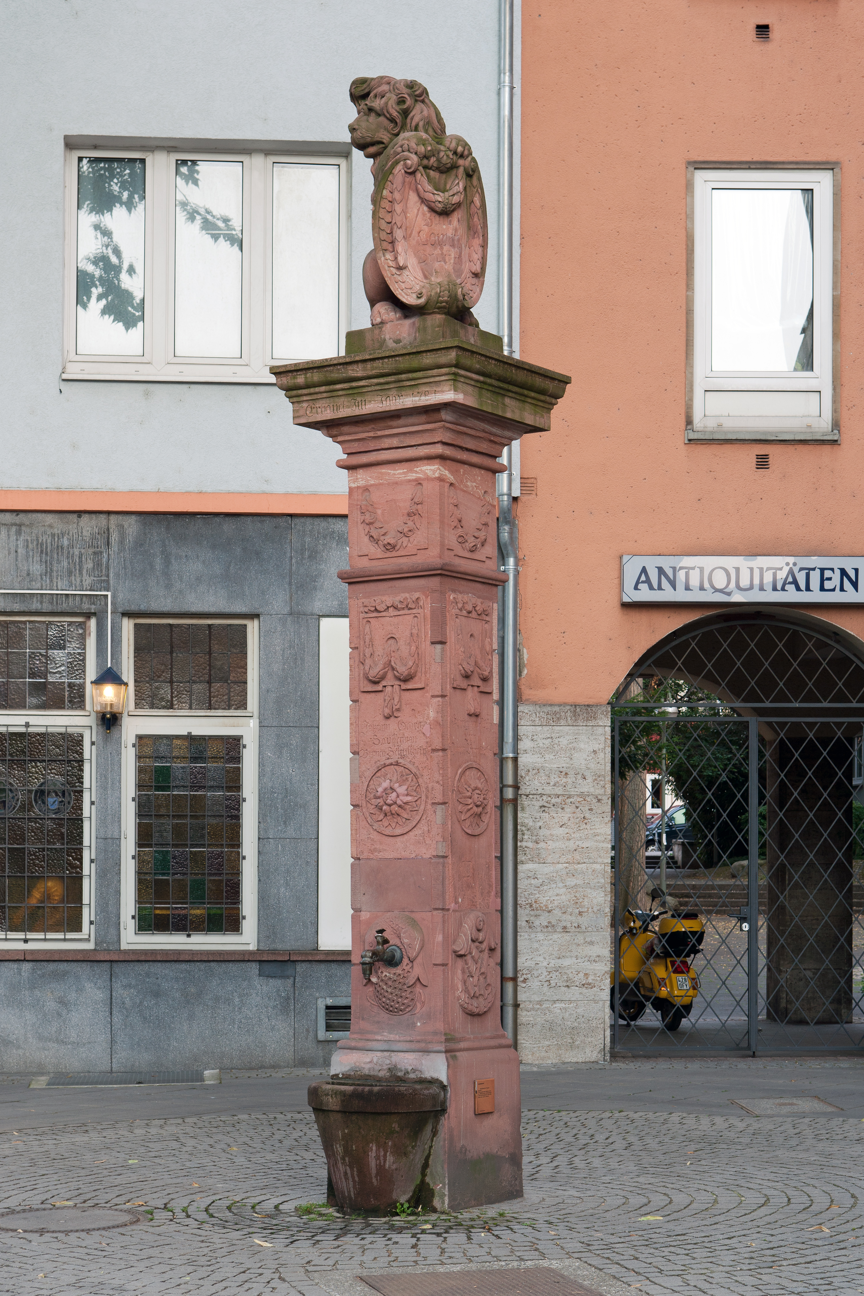 Frankfurt on the Main: Fahrgasse (Drive Lane) 27, Löwenbrunnen (Lion's Fountain) as seen from the north